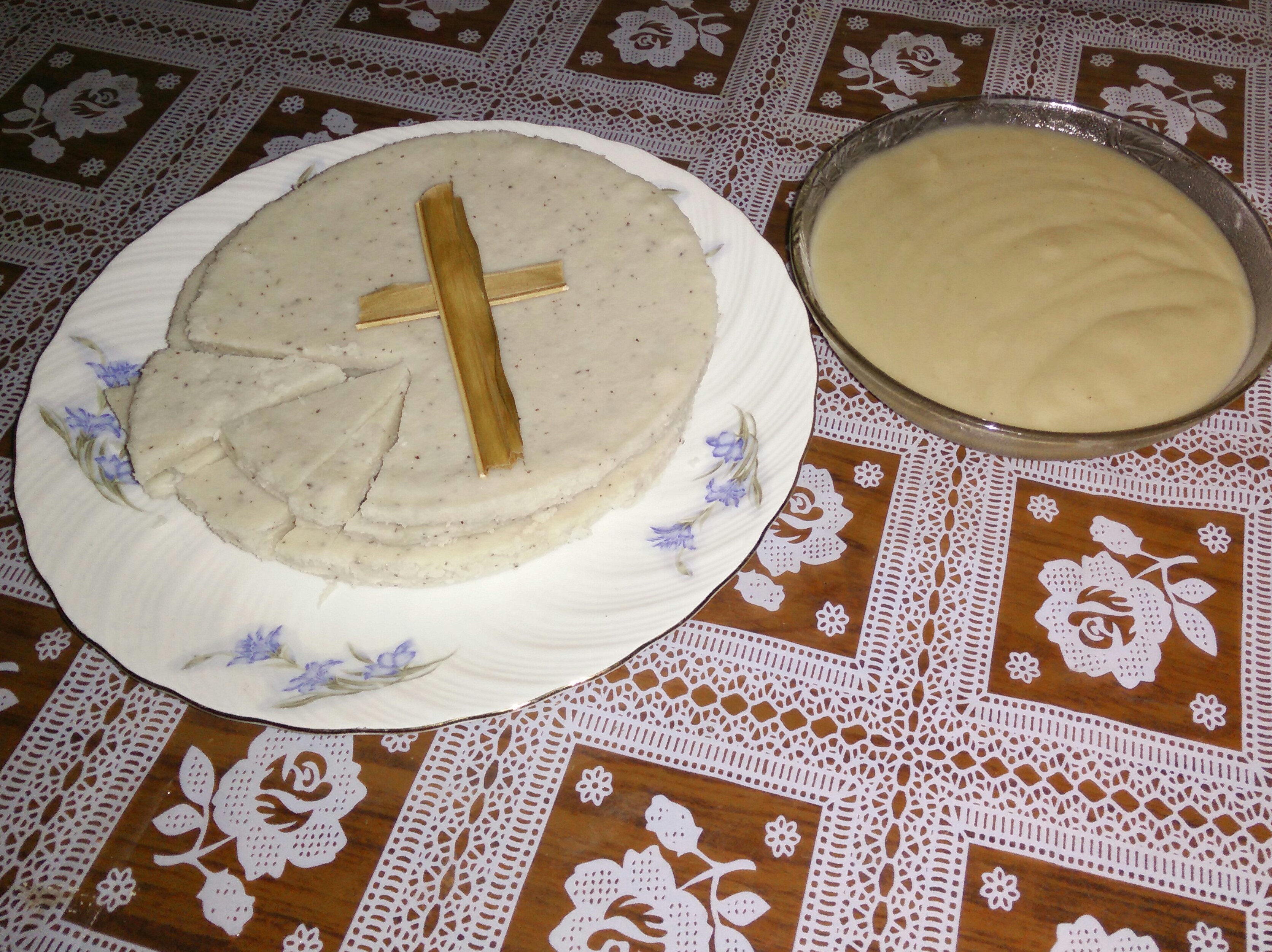 Pesaha Appam (പെസഹാ അപ്പം) is the unleavened Passover bread made by the Saint Thomas Christians (also known as Syrian Christians or Nasrani) of Kerala, India to be served on Passover night.It is made from rice batter but it is not fermented with yeast in its preparation.